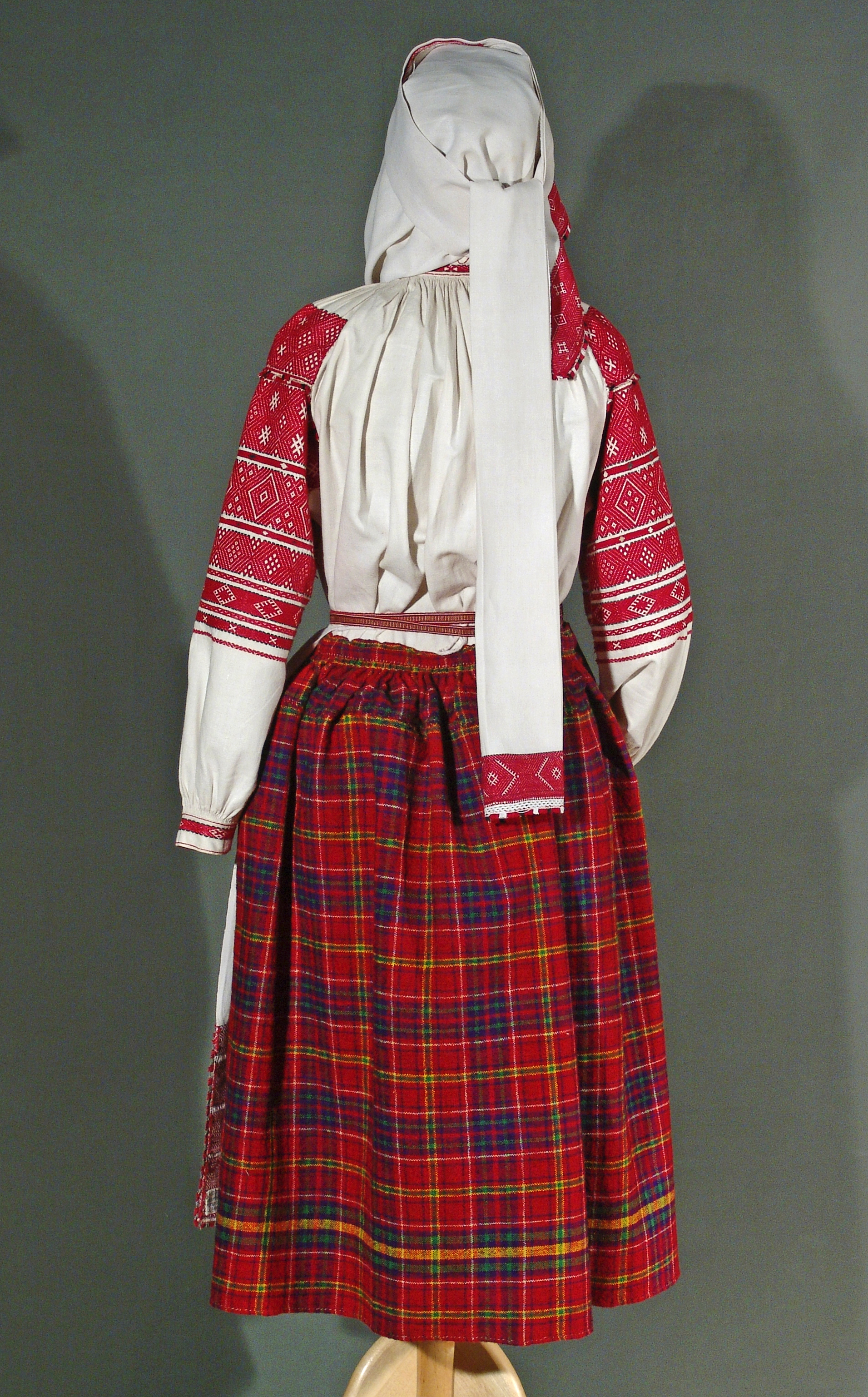 Traditional summer woman clothing of Belarusian peasants (Dražna agro-town, Staryya Darohi District, Belarus), the end of the XIXth century. Location: Museum of Belarusian Folk Art (Minsk city, Belarus)